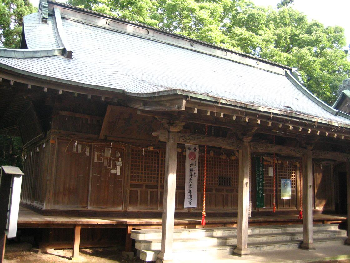 A picture of Kobirakata Shrine at Tenjinhama on Lake Inawashiro. Picture was taken in Inawashiro, Fukushima Prefecture, Japan with a Canon Power Shot SD450 Digital Elph camera and modified using a Paint Shop program on a laptop computer.